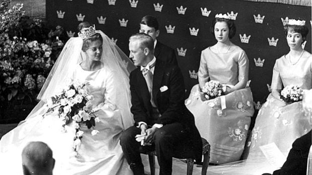 Princess Birgitta and the bridegroom Johan Georg von Hohenzollern during the wedding cermony. Crown Prince Carl Gustaf and Mikael Bernadotte can be seen to the left; bridesmaids Princess Benedikte of Denmark and Princess Christina of Sweden to the right.